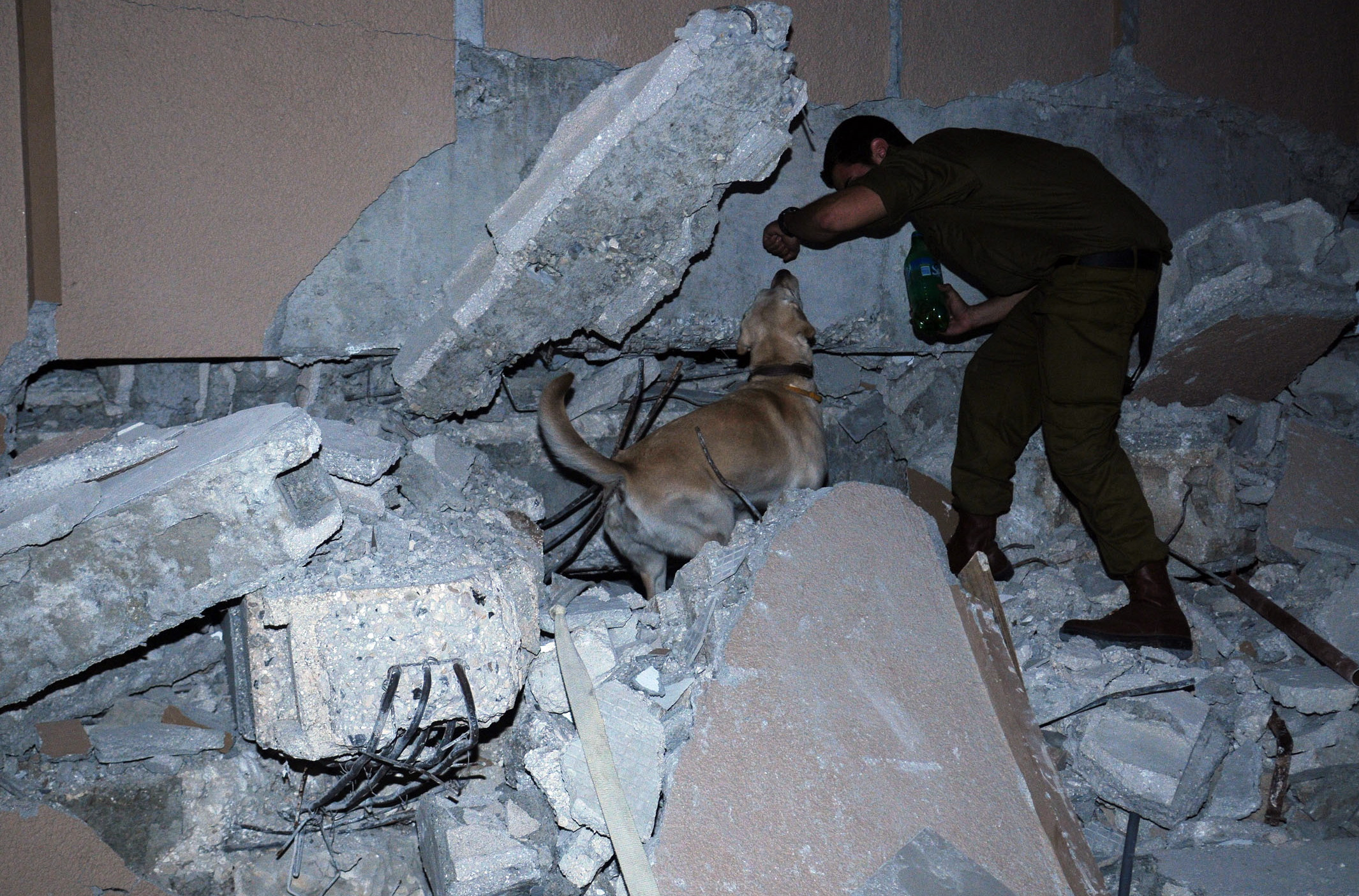 January 16, 2010. A canine handler from the IDF Oketz Canine Unit and his dog in the ruins of the Haiti UN headquarters, trying to locate survivors under the rubble. Israel sent a team of over 250 personnel to help in the rescue and medical efforts after Haiti was struck by a devastating earthquake in January 2010.